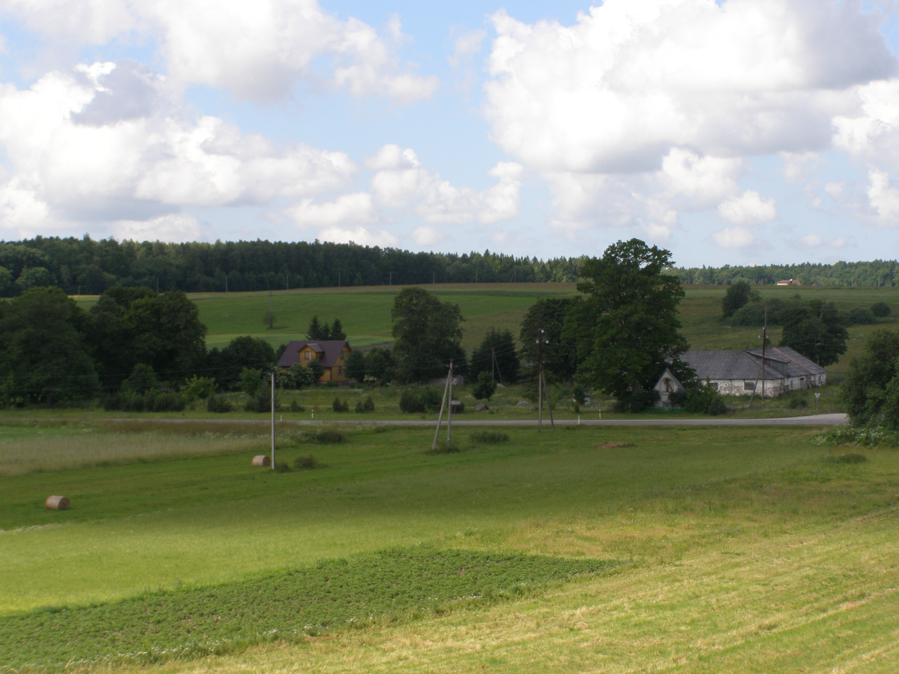 Tinteliai, Kretinga district, Lithuania